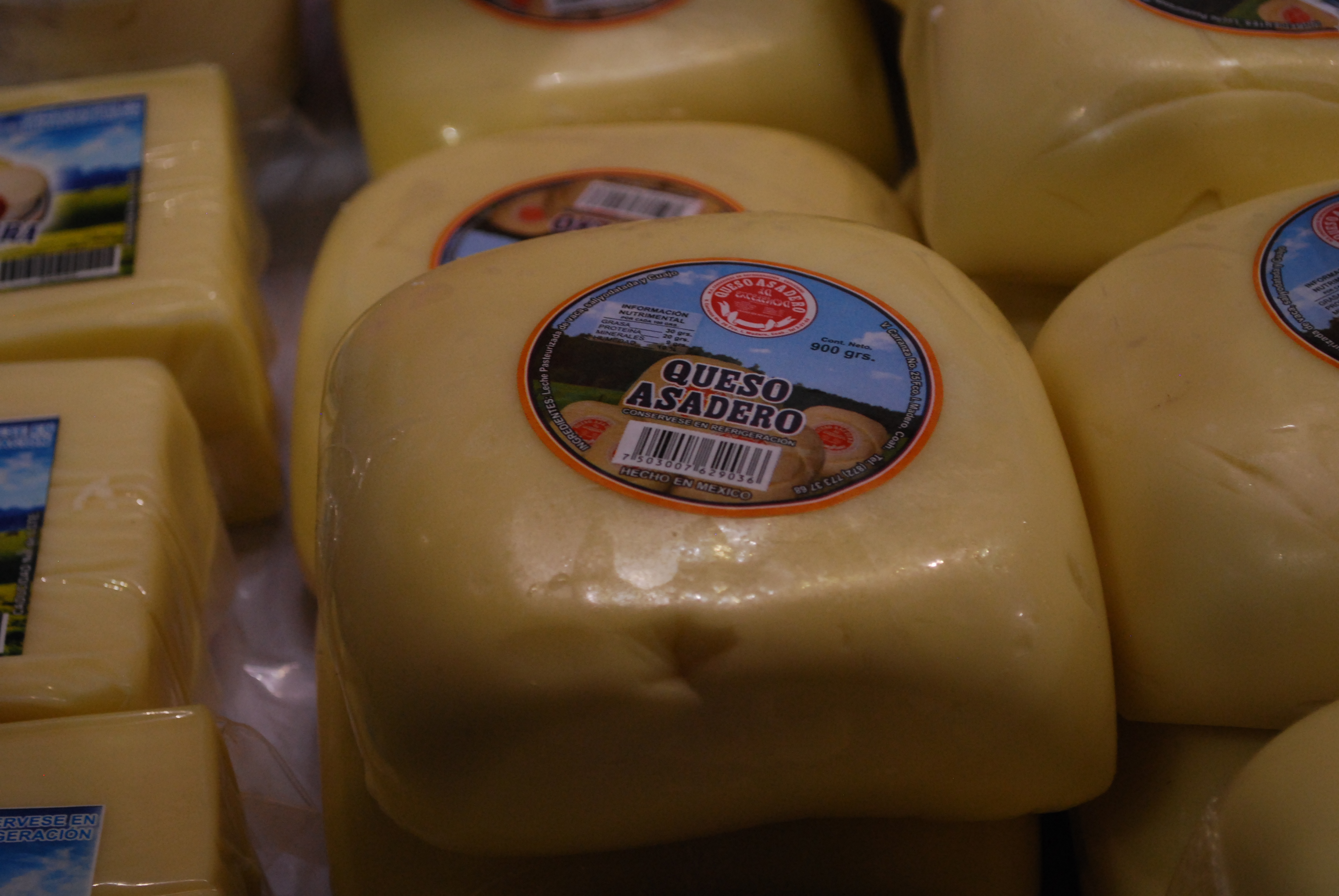 Blocks of asadero cheese for sale at the 2010 FONART exhibition in Mexico City